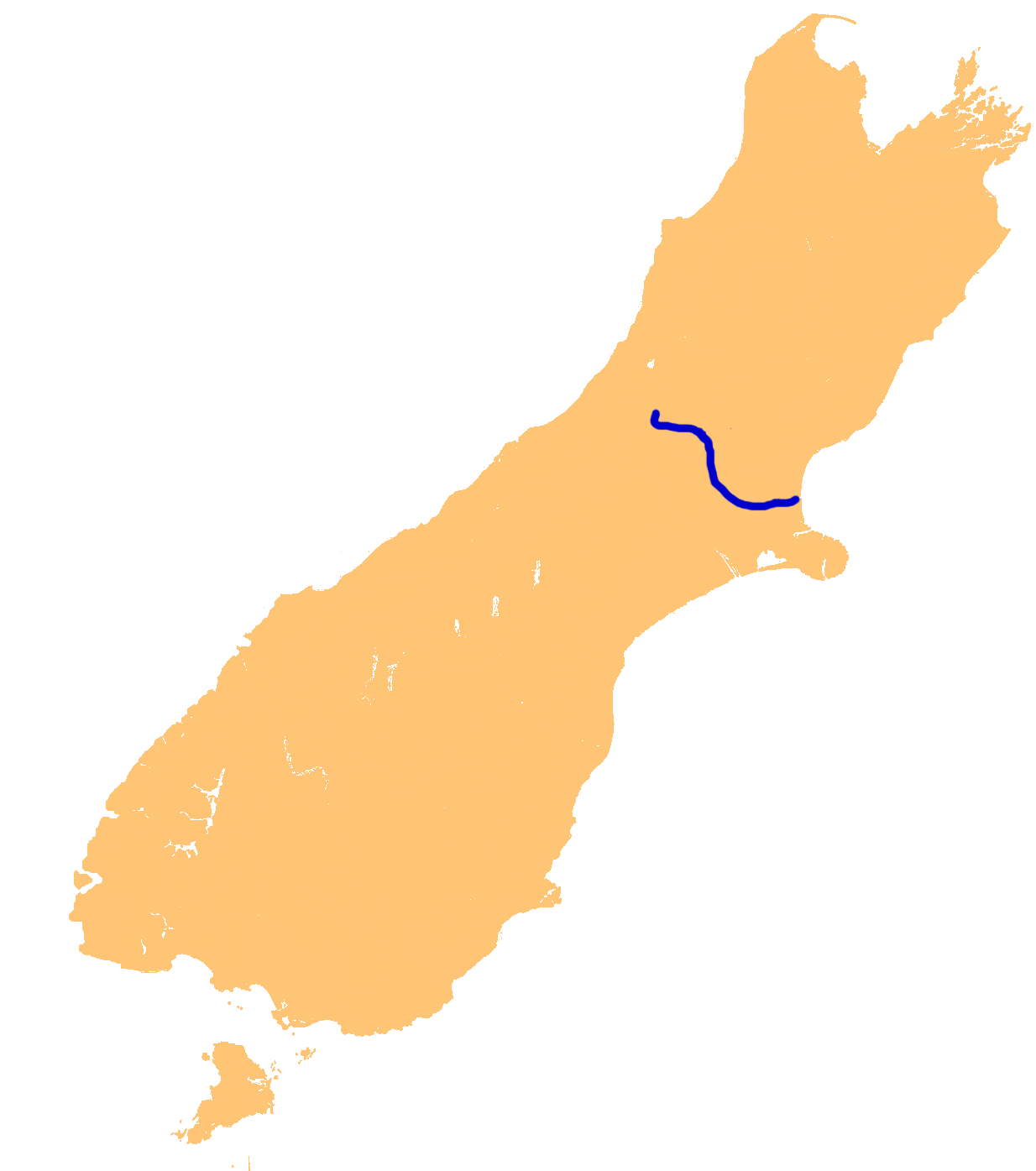 Location map of the Waimakariri River, New Zealand